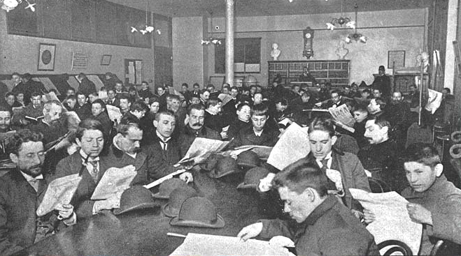 Jpg version of File:1895 Aguilar Free Library NYC.png